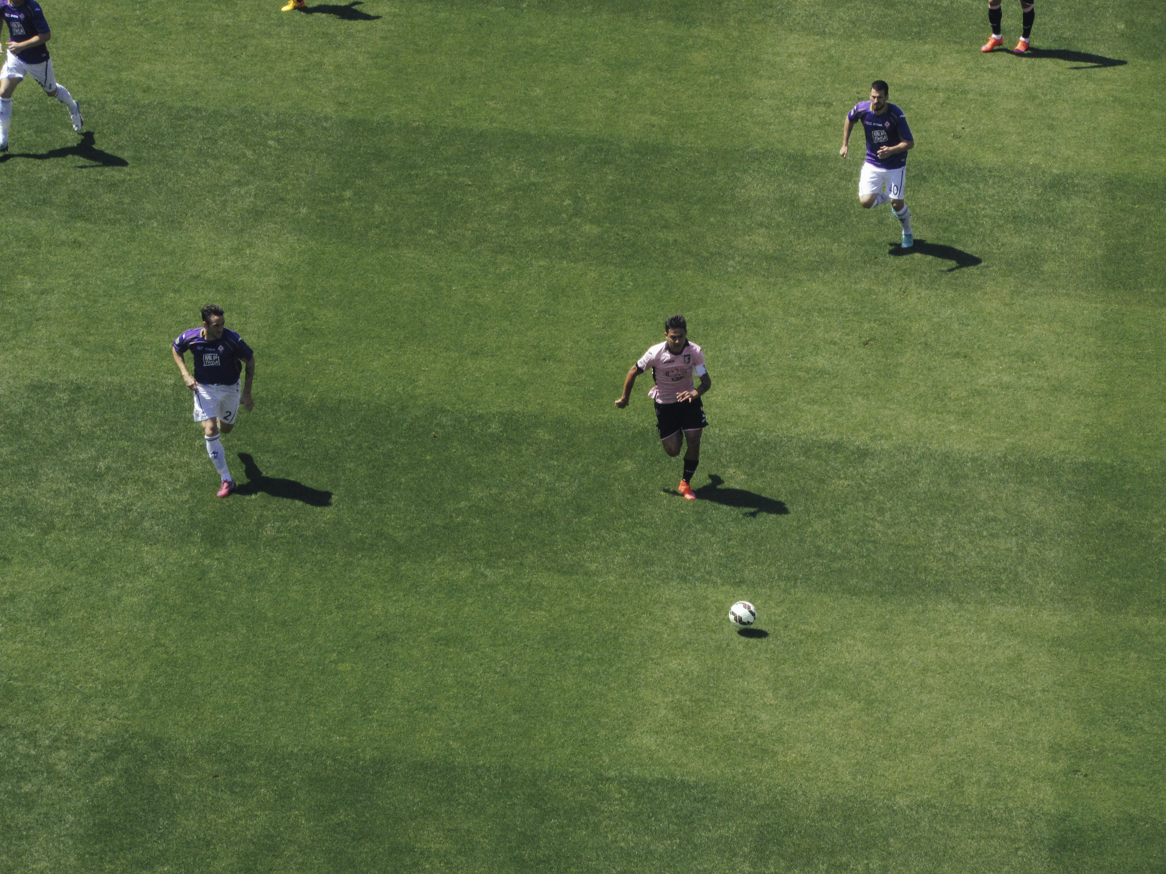 Paulo Dybala running with the ball for US Palermo in 2015